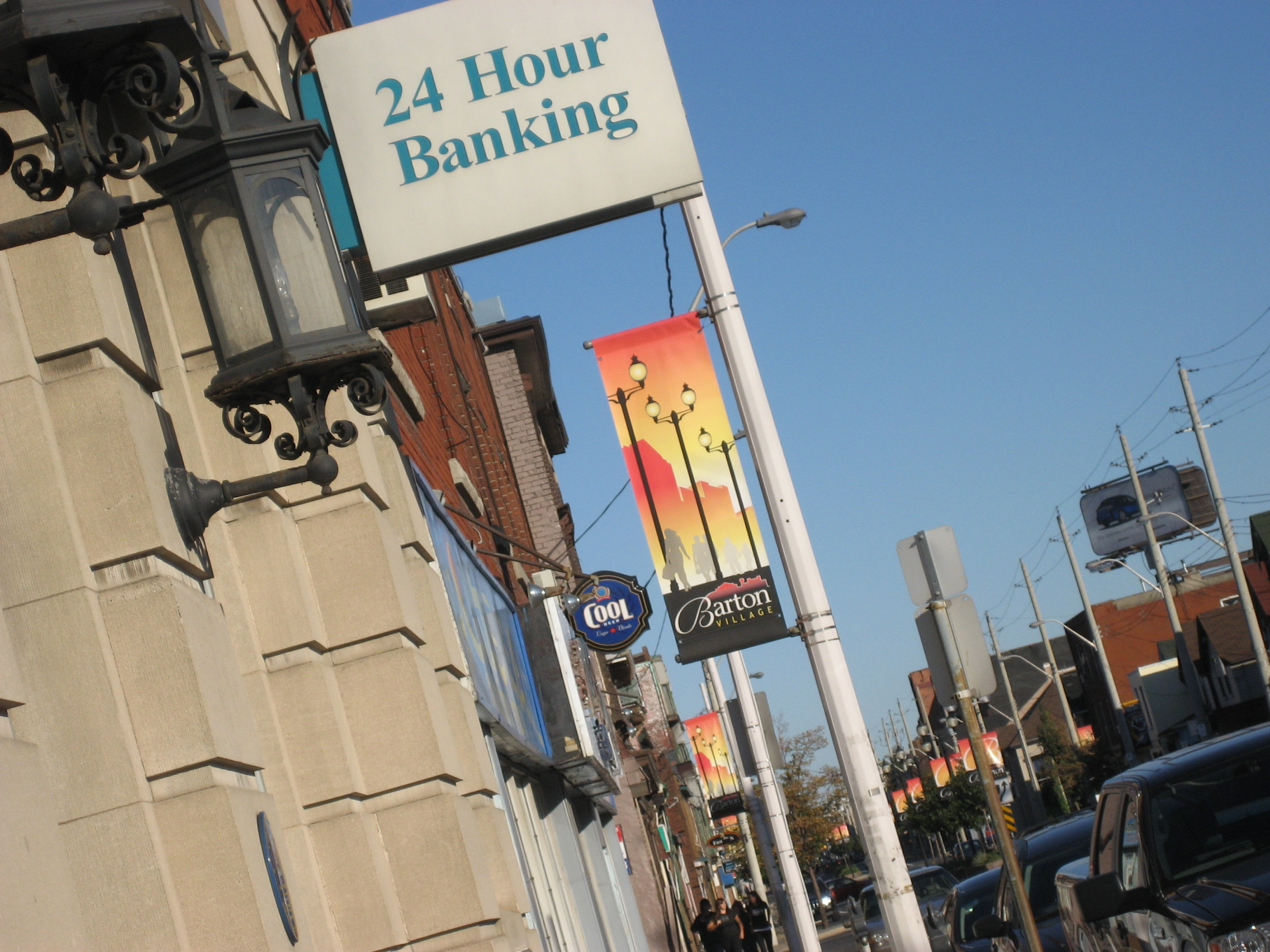 Barton Street East, Hamilton